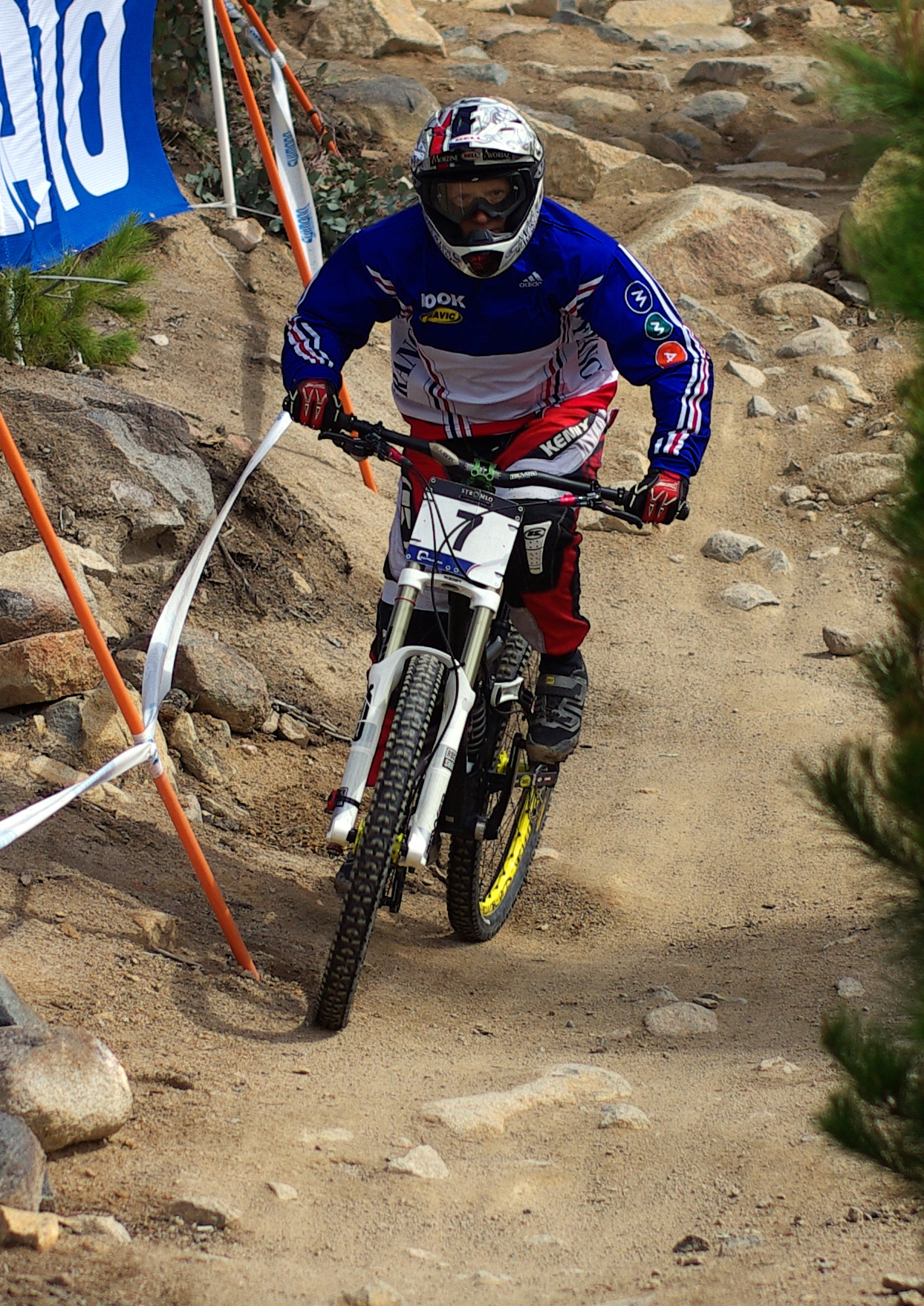 Cross-country mountain biking: Competitors in downhill events at the 2009 UCI Mountain Bike and Trials World Championships held at Mount Stromlo, near Canberra, Australia. Patrick Thome, France (Men's junior)